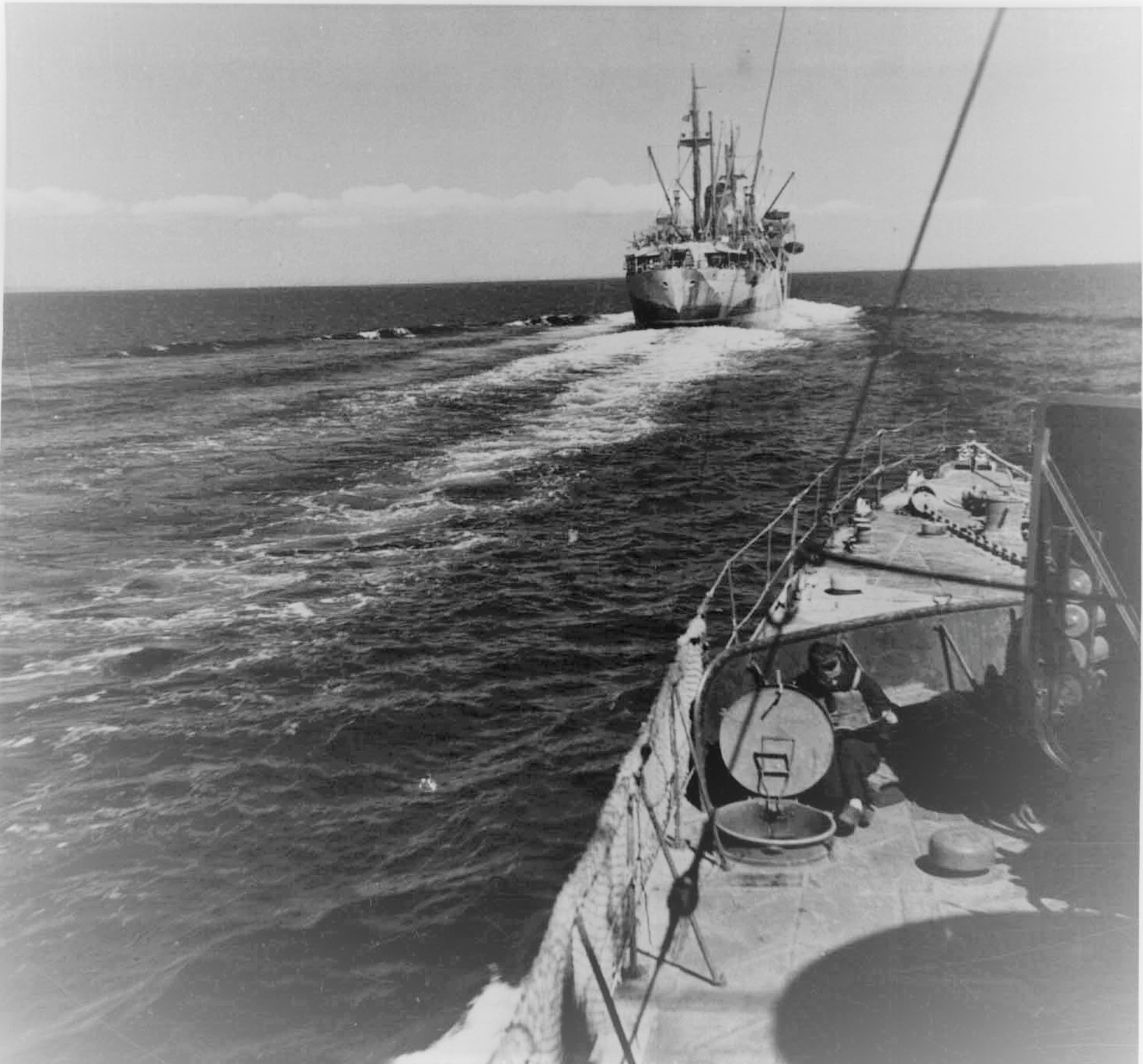 Italian convoy heading towards North Africa